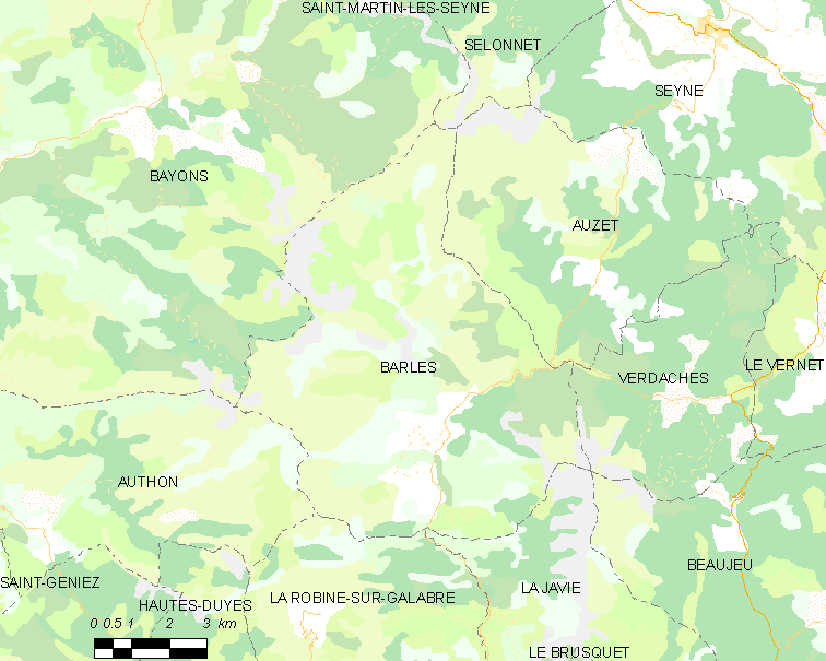 Map commune FR insee code 04020.png Légende